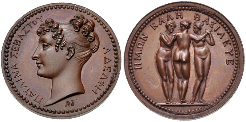 FRANCE, Premier Empire. Pauline Bonaparte. Duchess of Guastalla, 1806. Æ Medal (23mm, 5.76 g, 12h). By Andrieu (after The Three Graces by Rubens). Struck 1808. Greek text ΠAYΛINA ΣEBAΣTOY AΔEΛΦH, head left / HMΩN KAΛH BAΣIΛEYE (O, beautiful one, be our queen), the Three Graces. Edge: Plain.